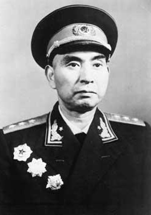 Yang Yong in 1955.